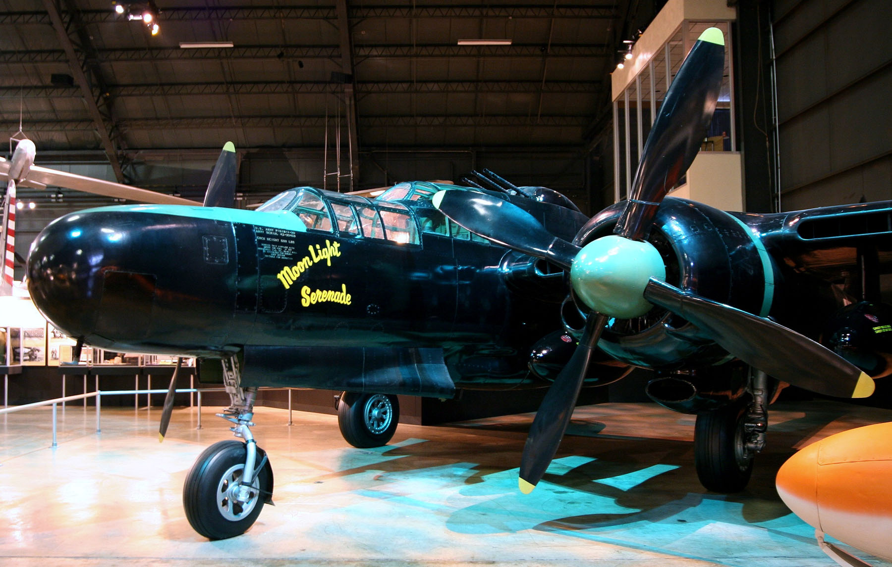 Northrop P-61C Black Widow "Moonlight Serenade" on display at the National Museum of the United States Air Force